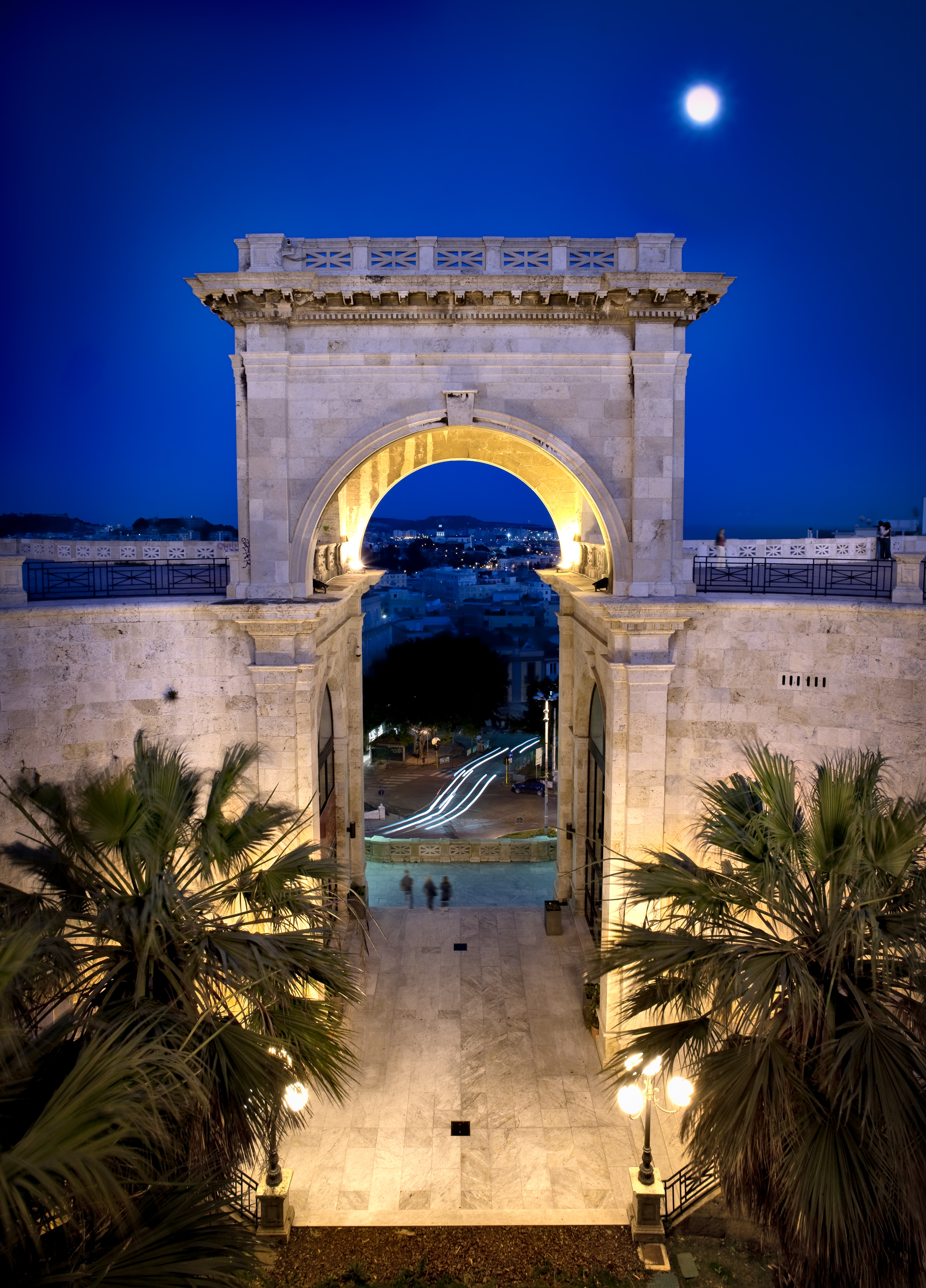 King Umberto I Triumphal arch on Saint Remy bastion